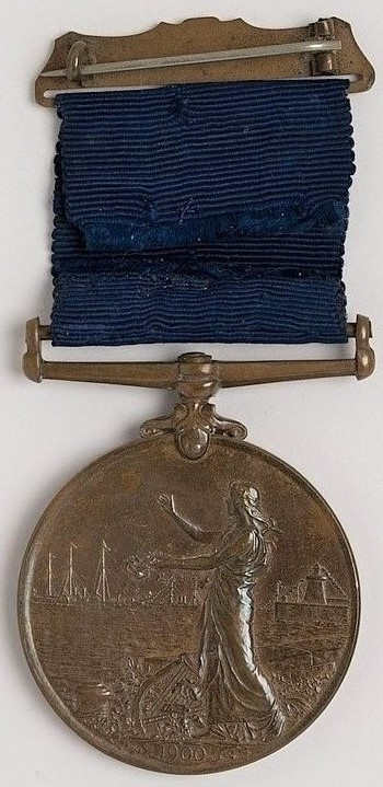 Queen's Visit to Ireland Medal, 1900, reverse. British commemorative medal.